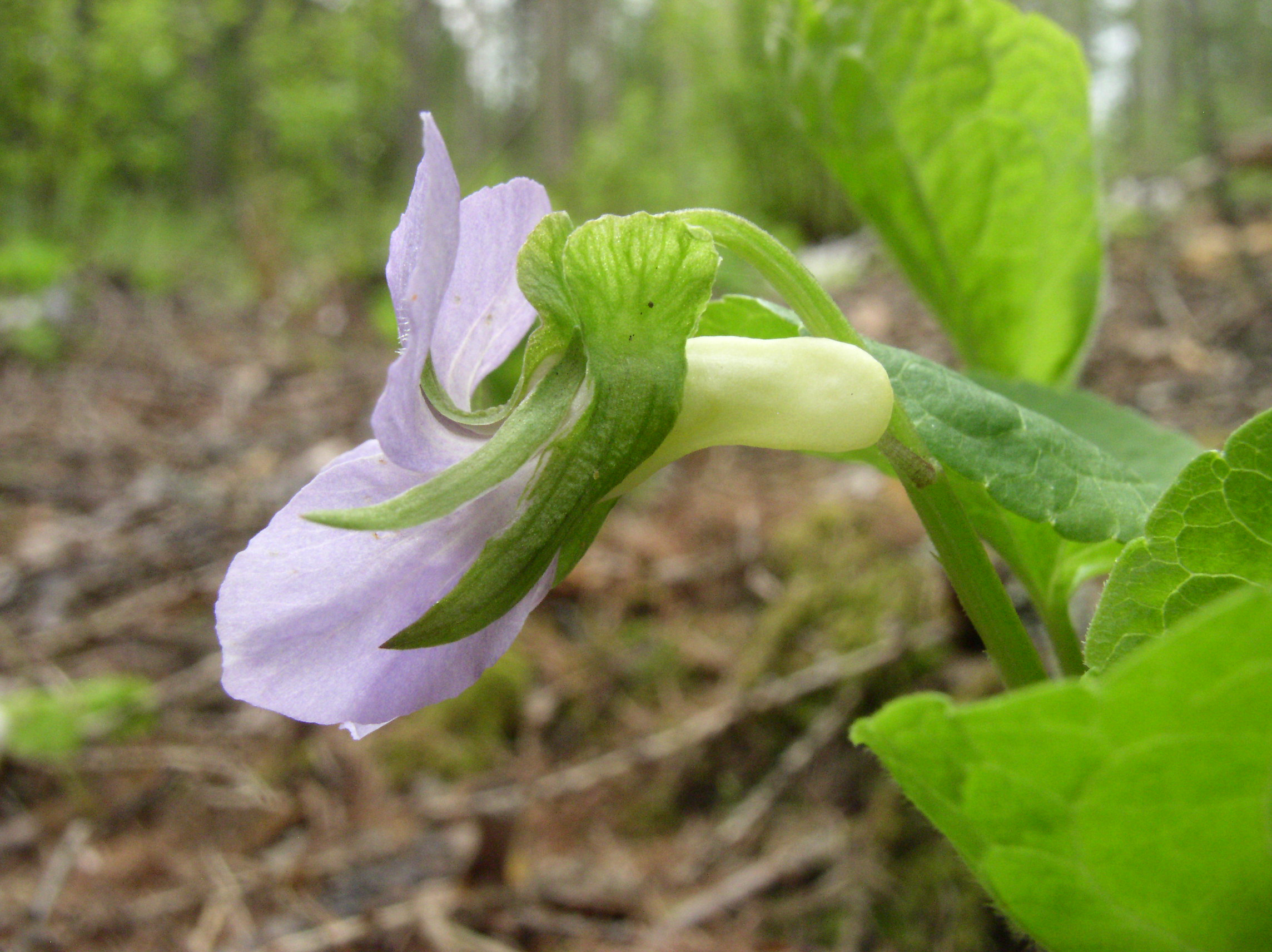 Viola mirabilis flower in Savonlinna, Finland.